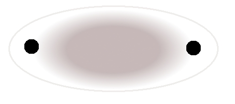 Sigma bonding scheme